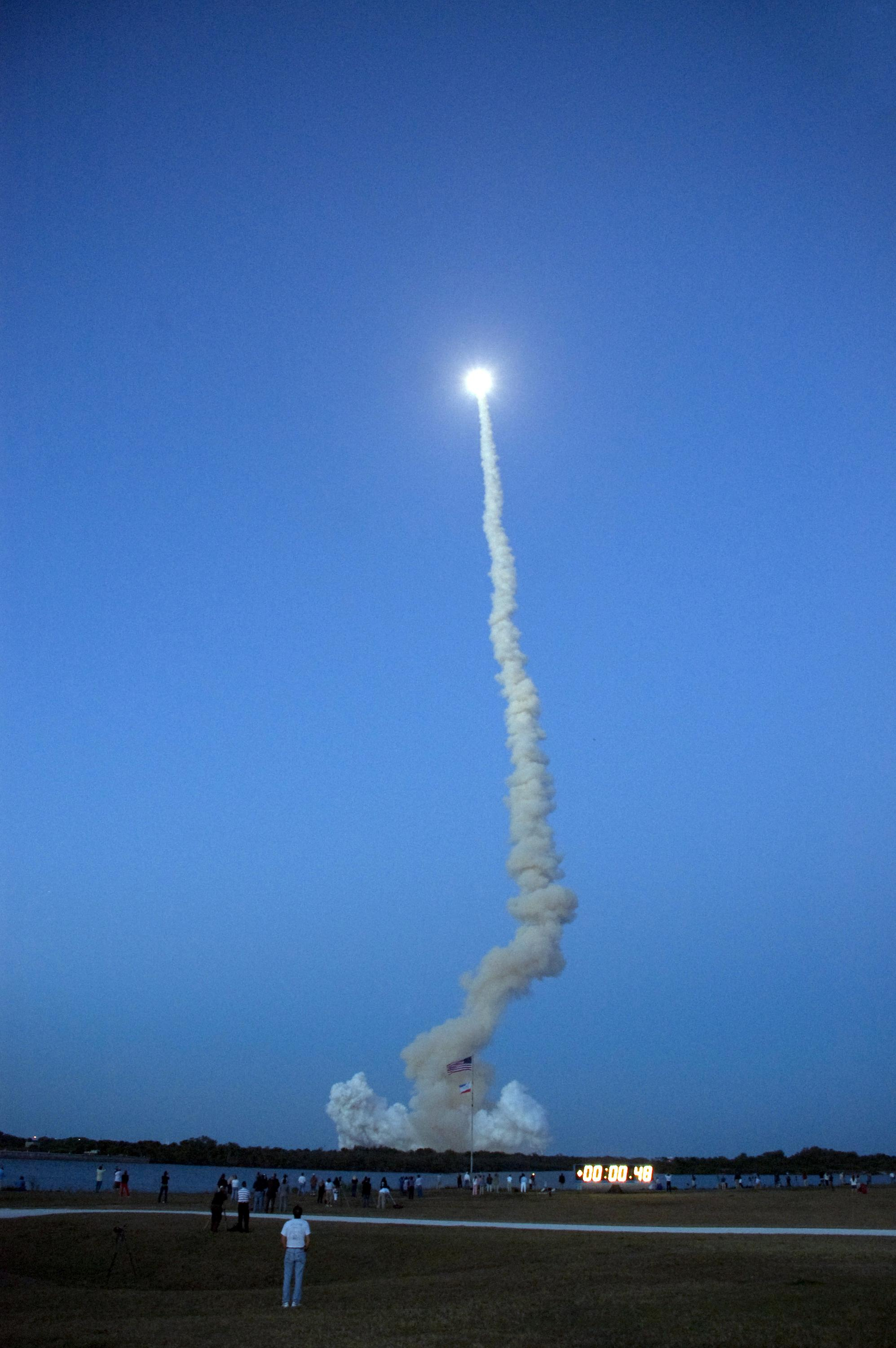 Launch of Discovery Space Shuttle, mission STS-119.